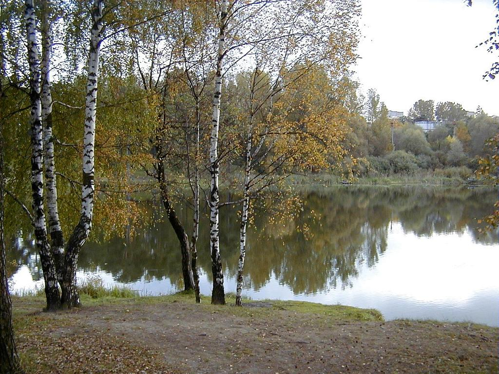 Babelites lake. Jugla.